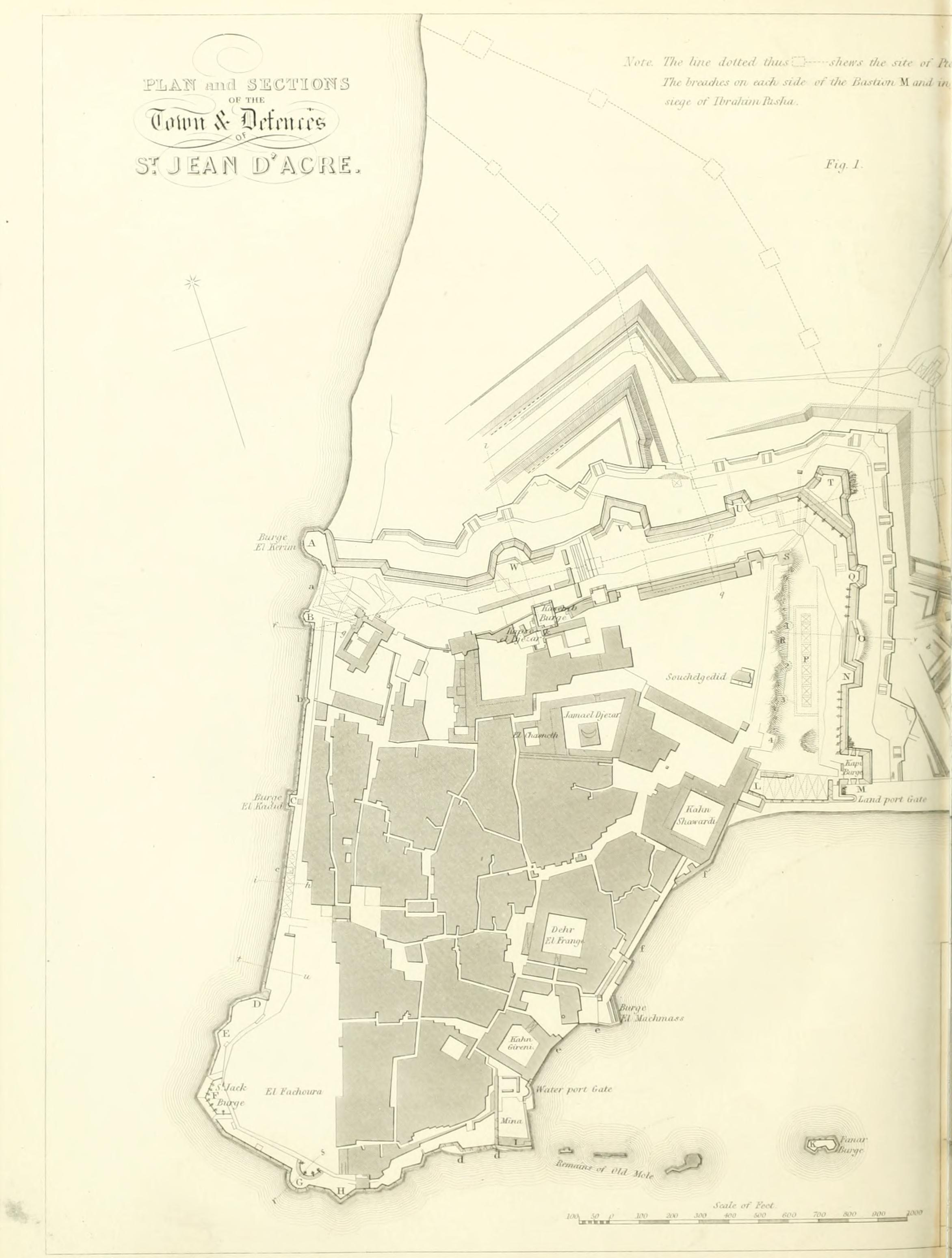 1840–41 Royal Engineers map of Acre (close up)